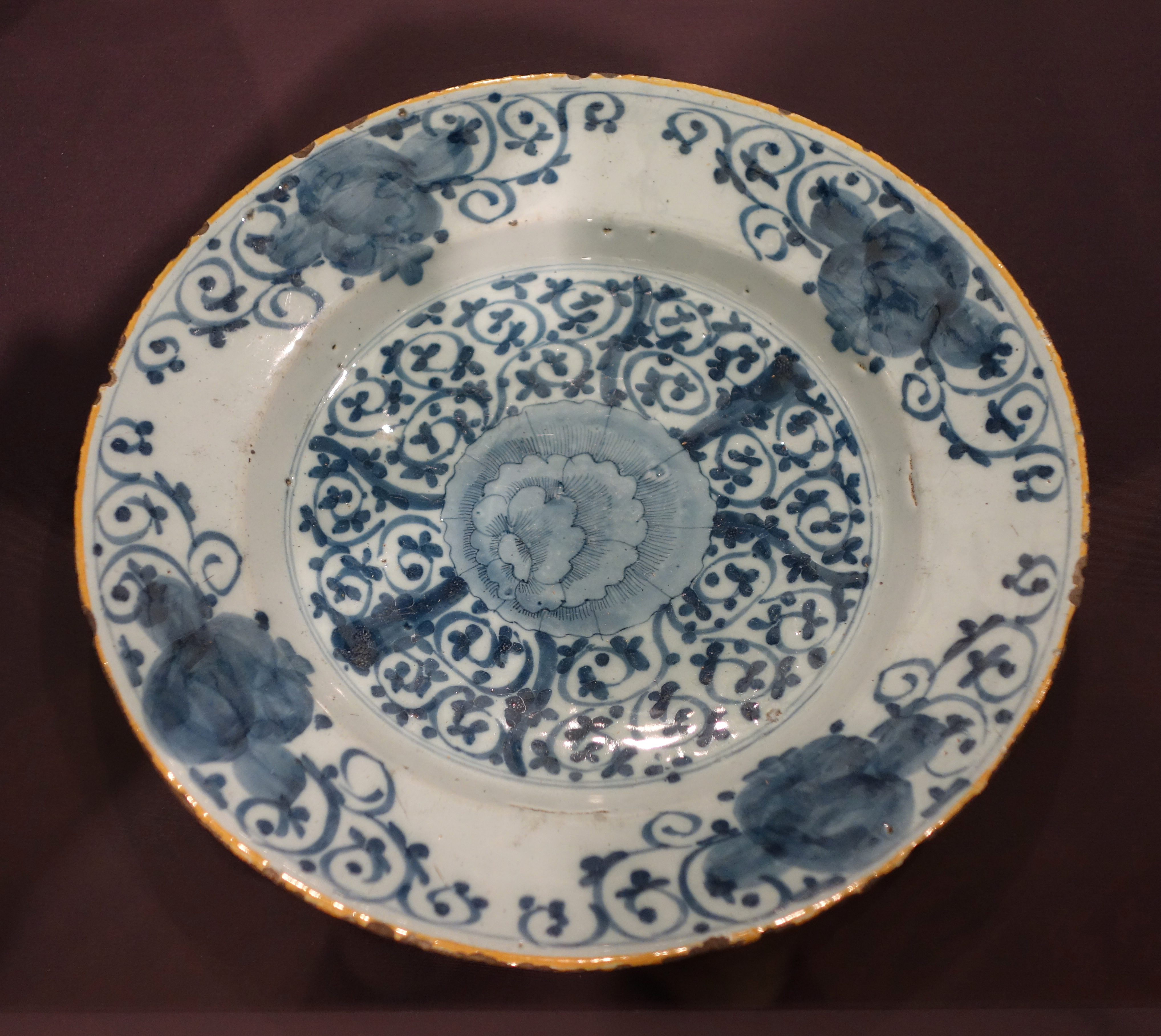 Exhibit in the Cincinnati Art Museum, Cincinnati, Ohio, USA. This artwork is in the public domain because the artist died more than 70 years ago.